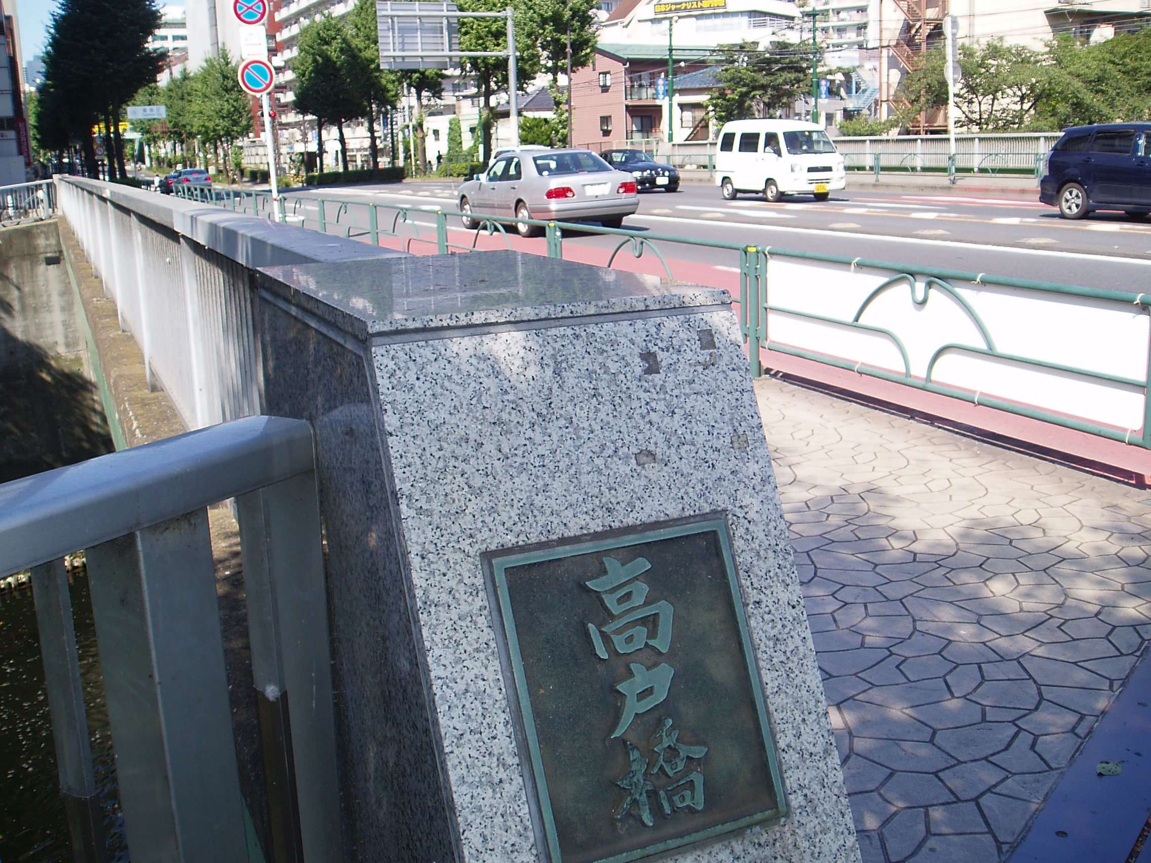 Takatobashi bridge, Shinjuku&Toshima, Tokyo, Japan